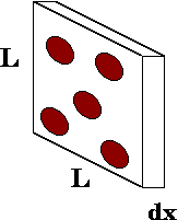 Used in derivation of mean free path.